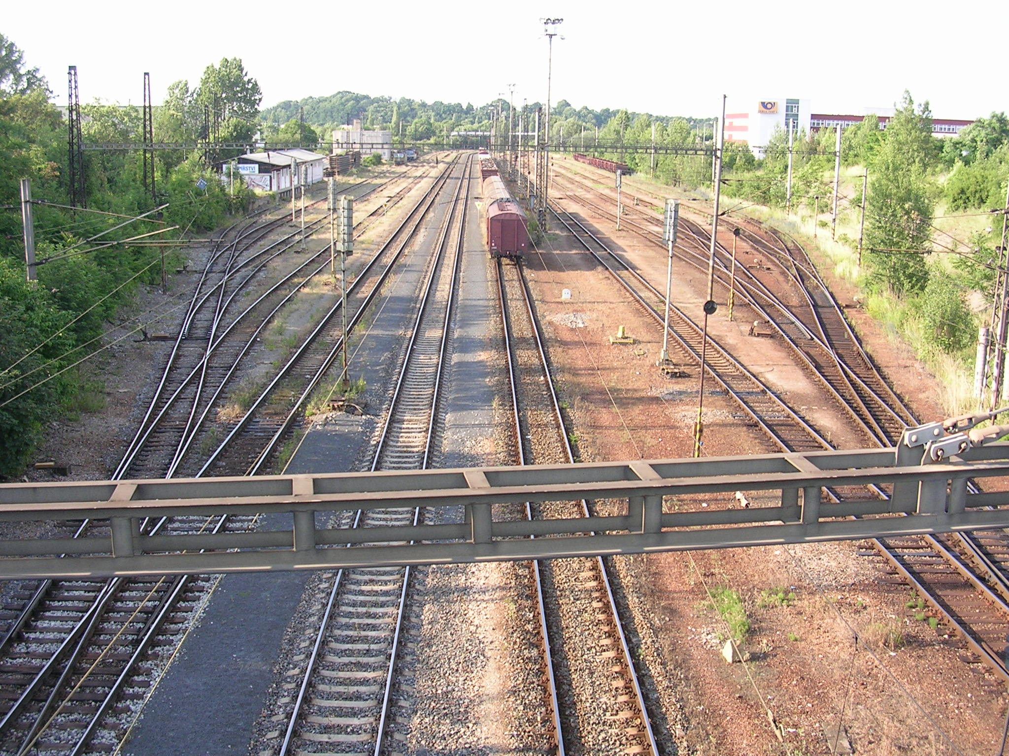 Malešice, Prague, the Czech Republic.